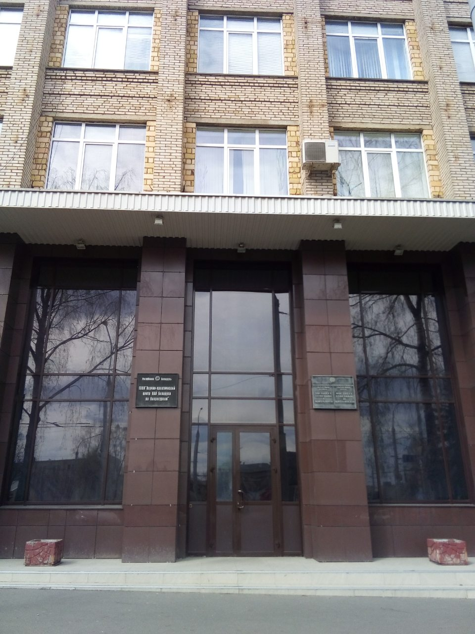 Entrance to the Institute of Genetics and Cytology of the National Academy of Sciences of Belarus (27 Akademičnaja Street, Minsk; 20th of April, 2019)